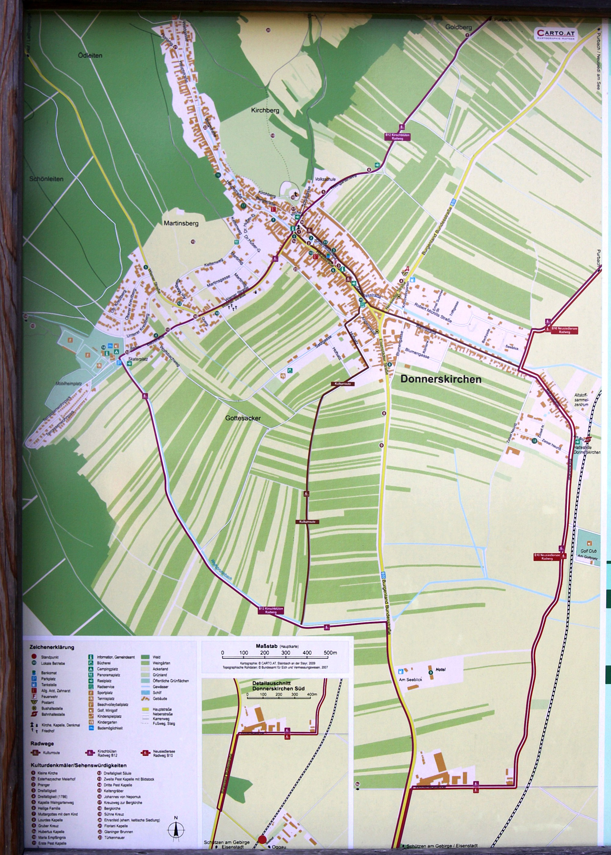 Map of Donnerskirchen